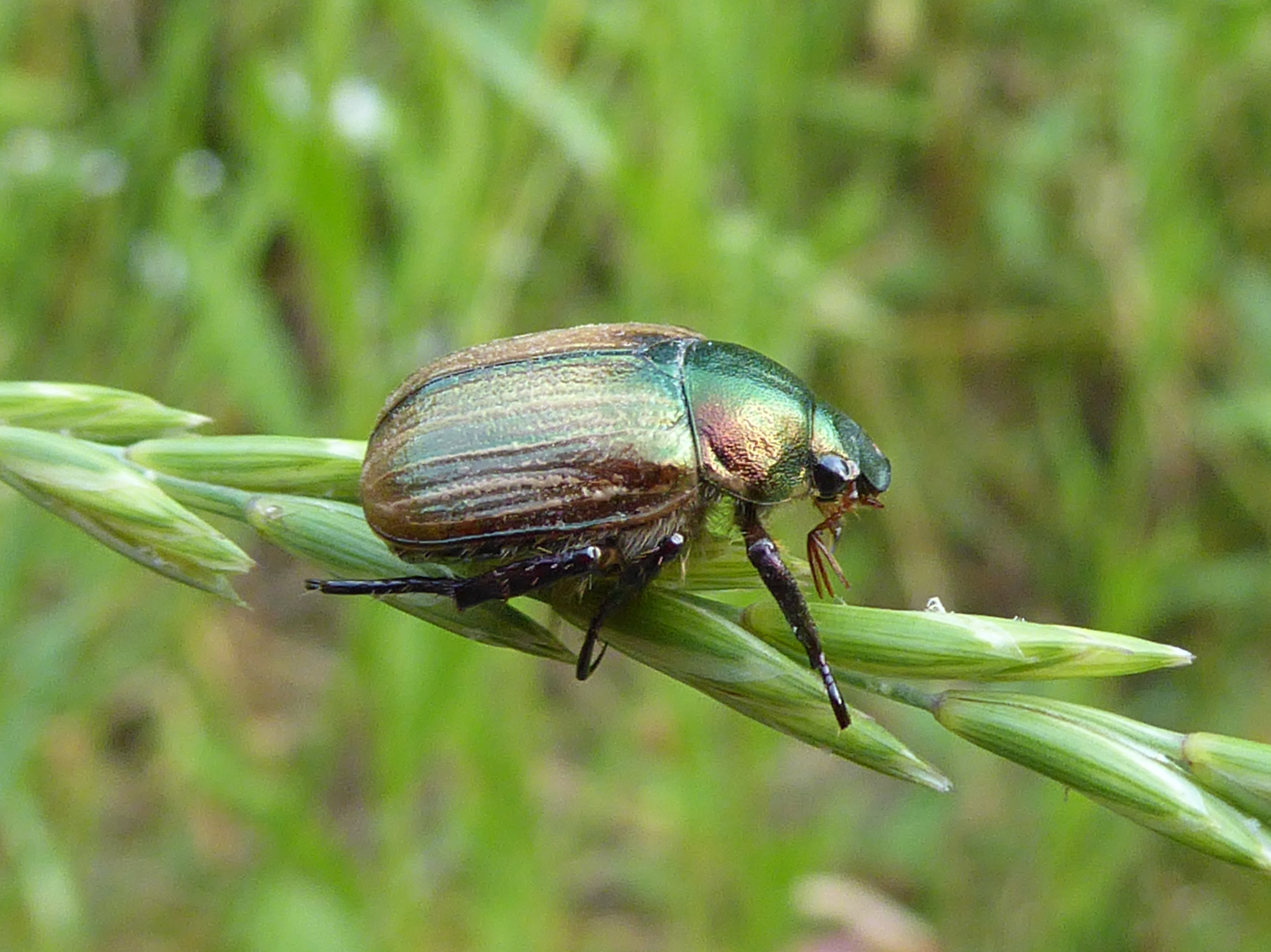 Mimela junii, Paludi (Segonzano, Trentino, Italy)